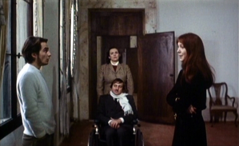 Screenshot from Porcile